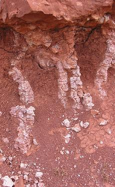 Paleosol